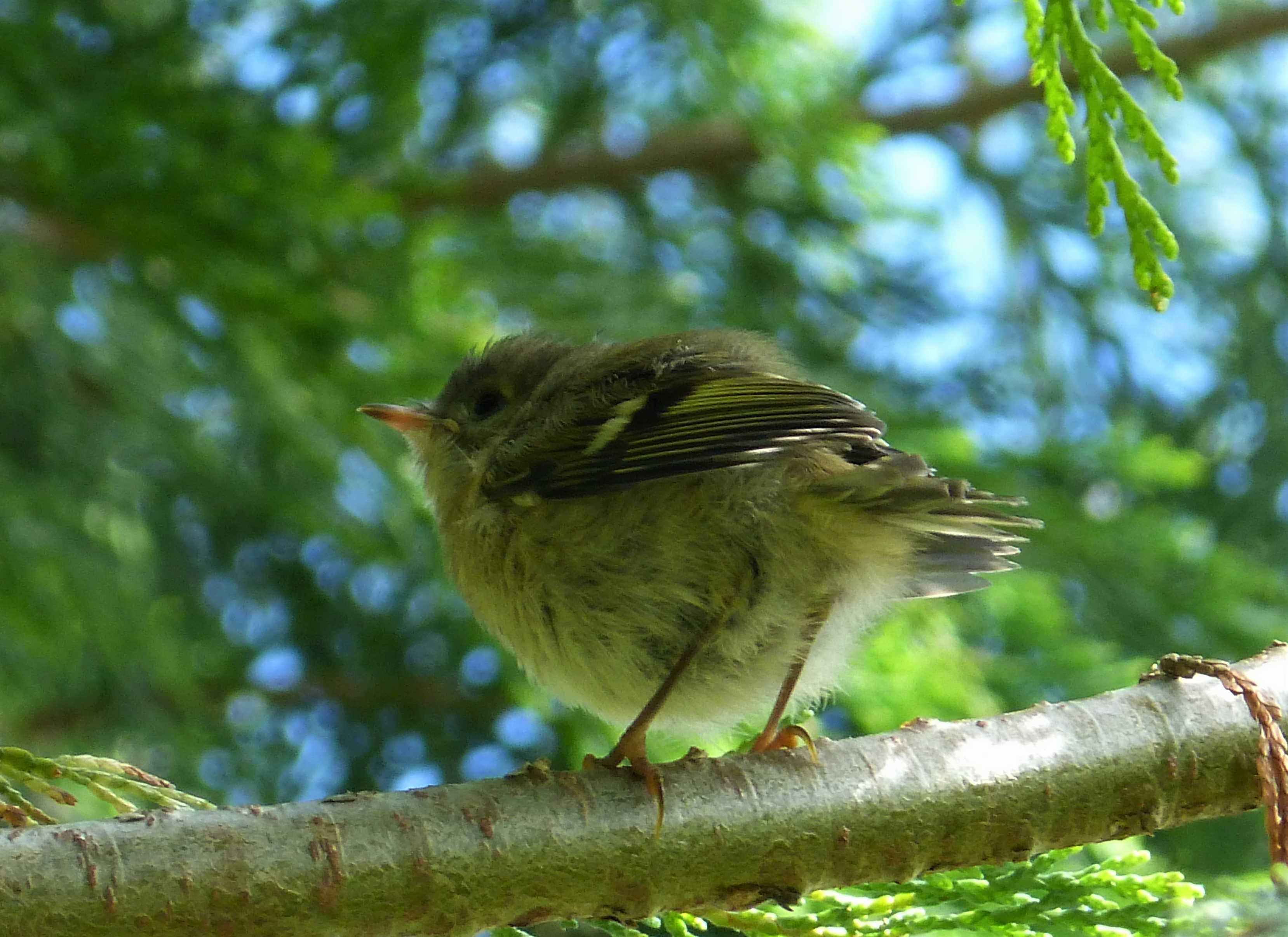 I was suddenly surrounded by them, enchanting. Good to know they bred successfully in my garden. Cradley, Malvern